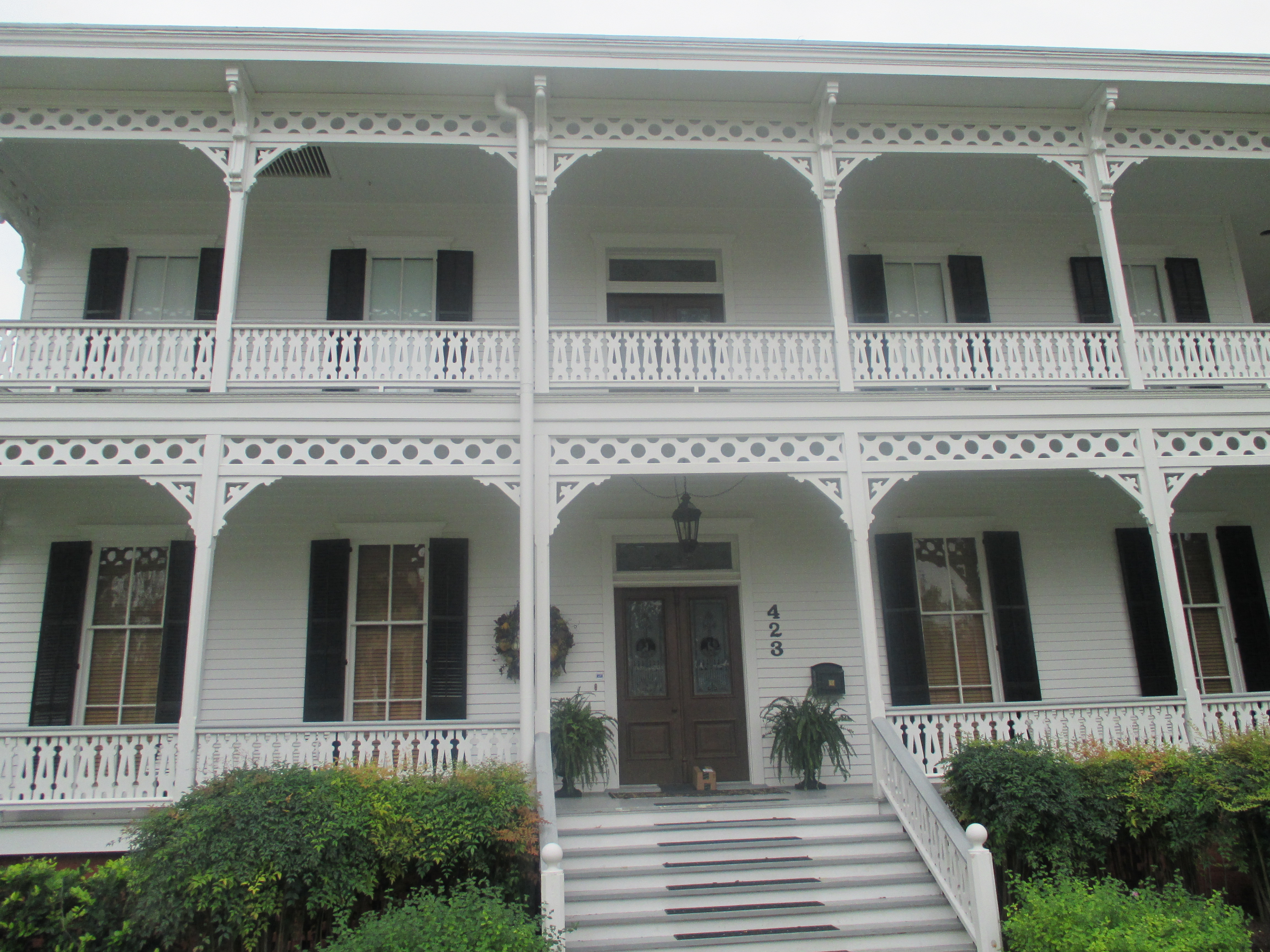 I took photo with Canon camera of Stafford-Miller House in Columbus, TX.